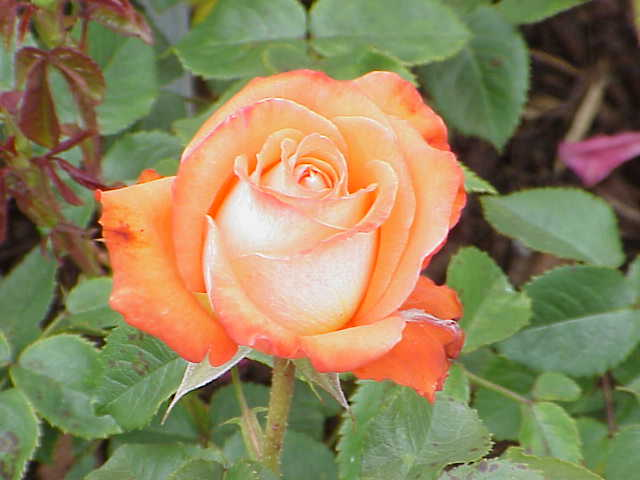 Species: Rosa sp. Family: Rosaceae Cultivar: 'Königin der Rosen', Kordes 1964 Image No. 164